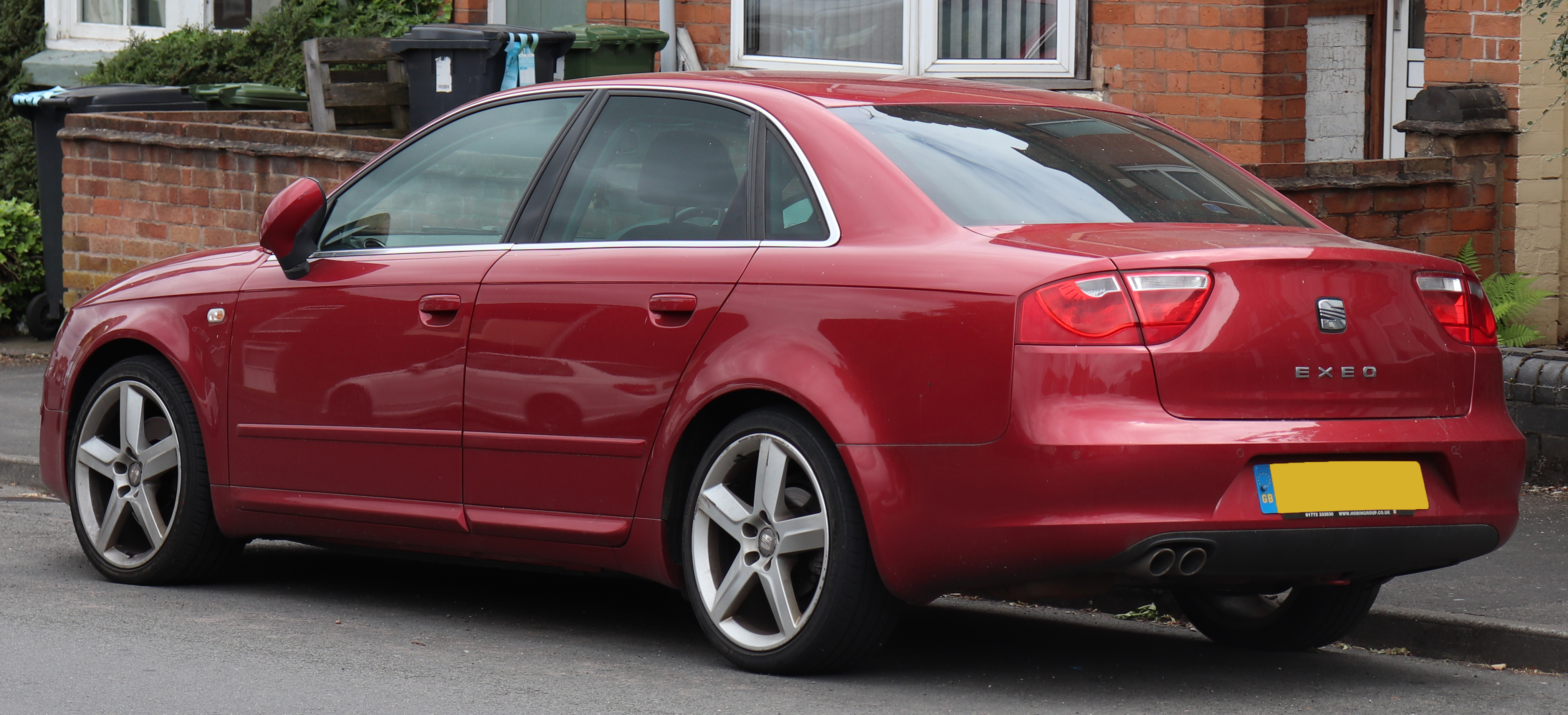 2011 SEAT Exeo Sport Tech CR TDi 168 2.0 Rear Taken in Leamington Spa